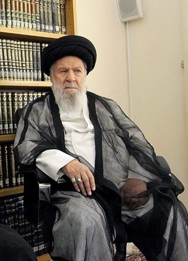 Grand Ayatollah Abdul-Karim Mousavi Ardebili